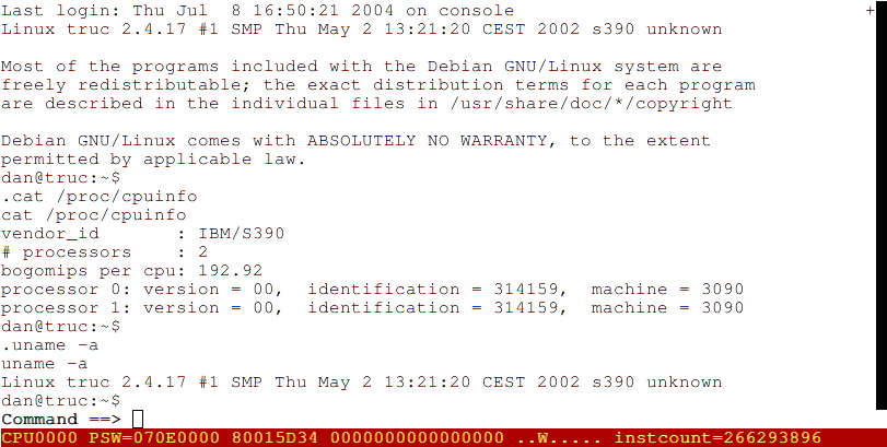 This is a screenshot of the Hercules system console after IPL in IBM ESA/390 emulation with Linux/390 (Debian Woody distribution) running on an x86 host.